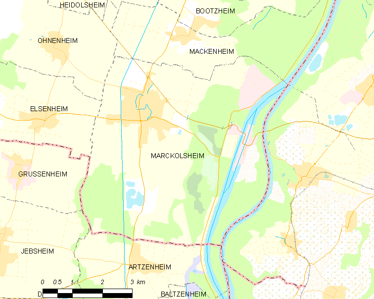 Map of French municipality